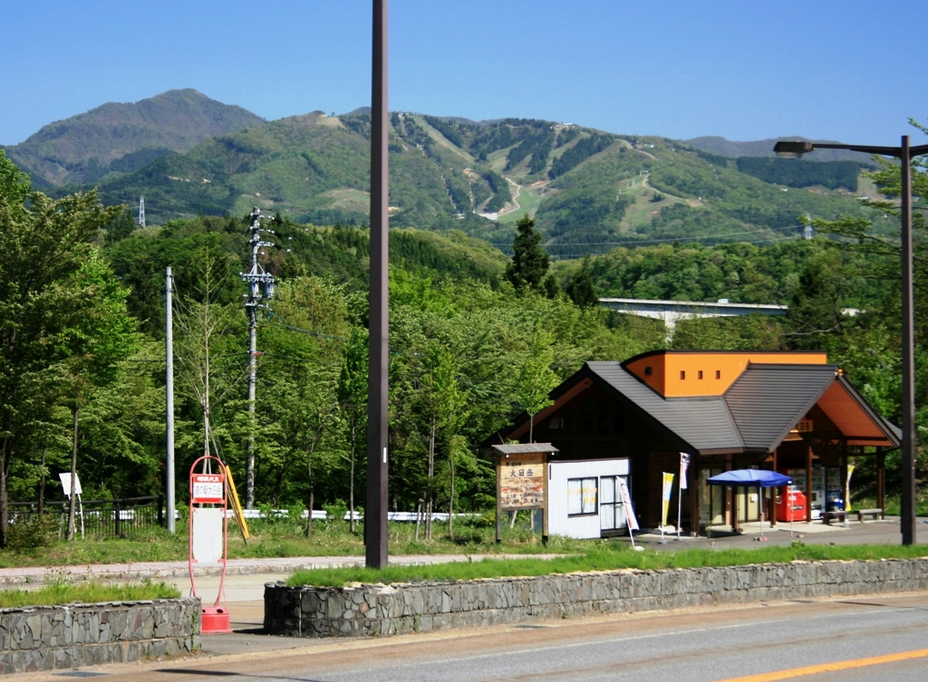 Michinoeki Dainichidake and Mount Washi, Gifu prefecture, Japan.